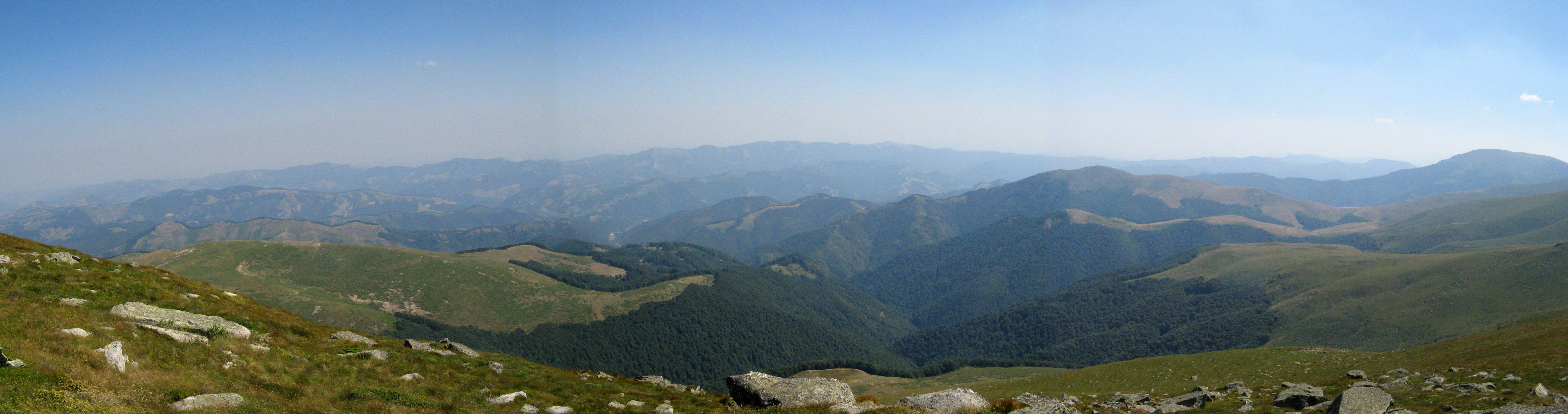 Panorama_tetevenski balkan